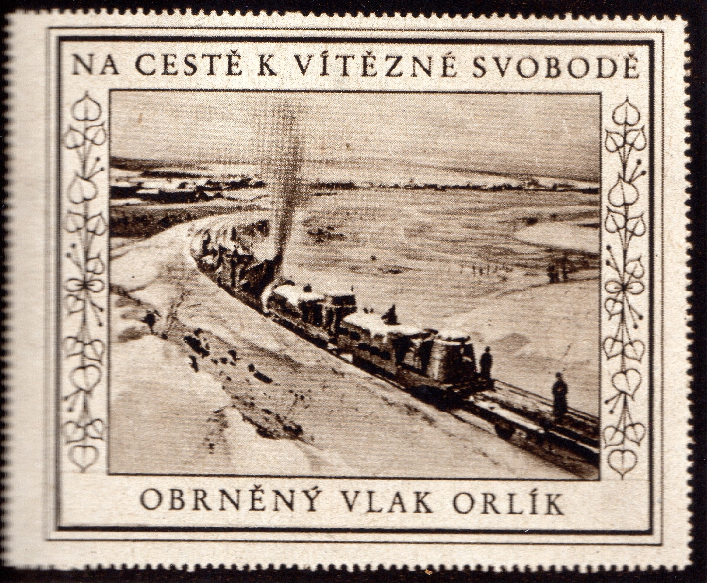 Armoured train Orlik (Siberia 1919)